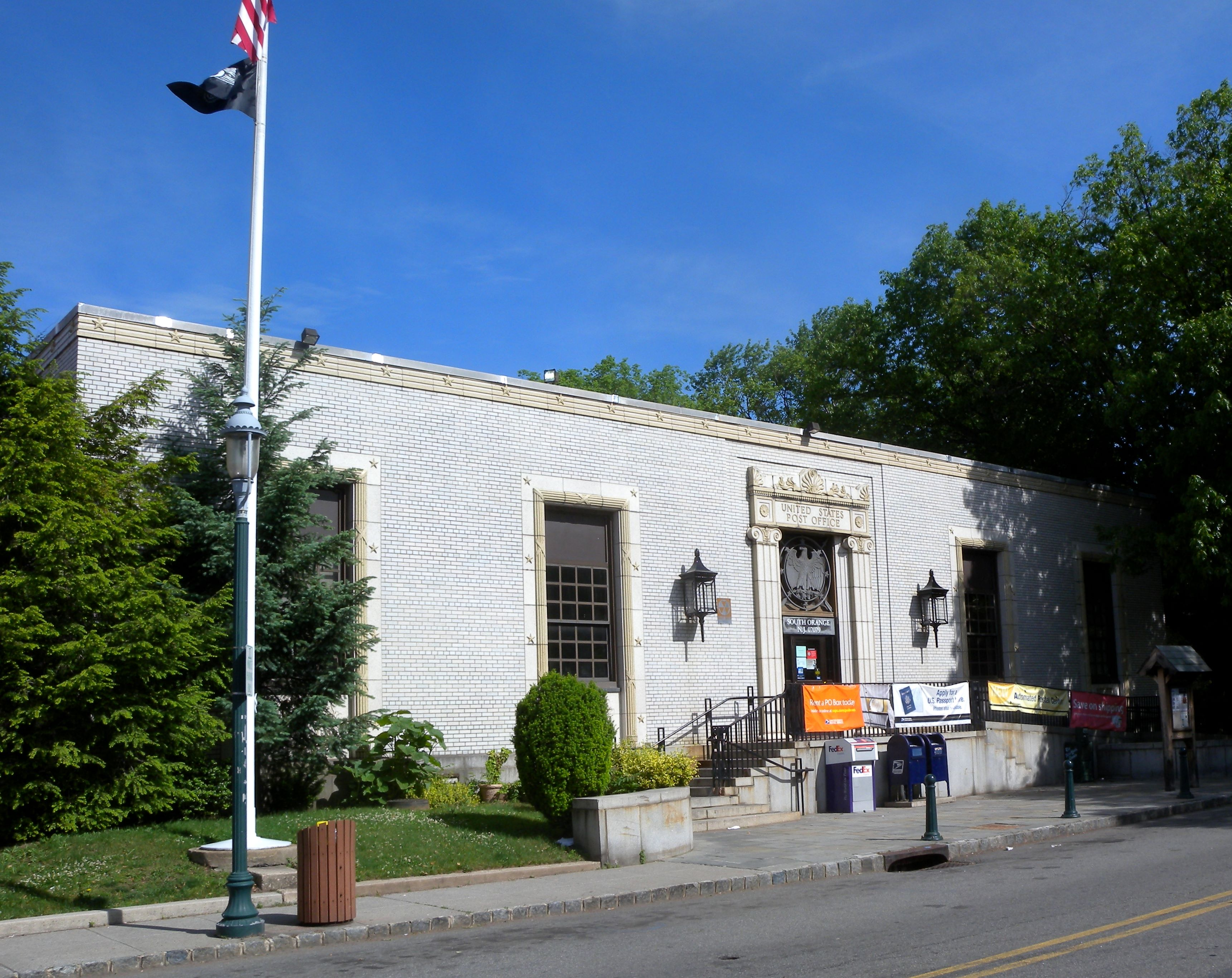 Looking north across Vose Avenue at Post Office on a sunny morning. See also File:So Orange USPS 07079.JPG.